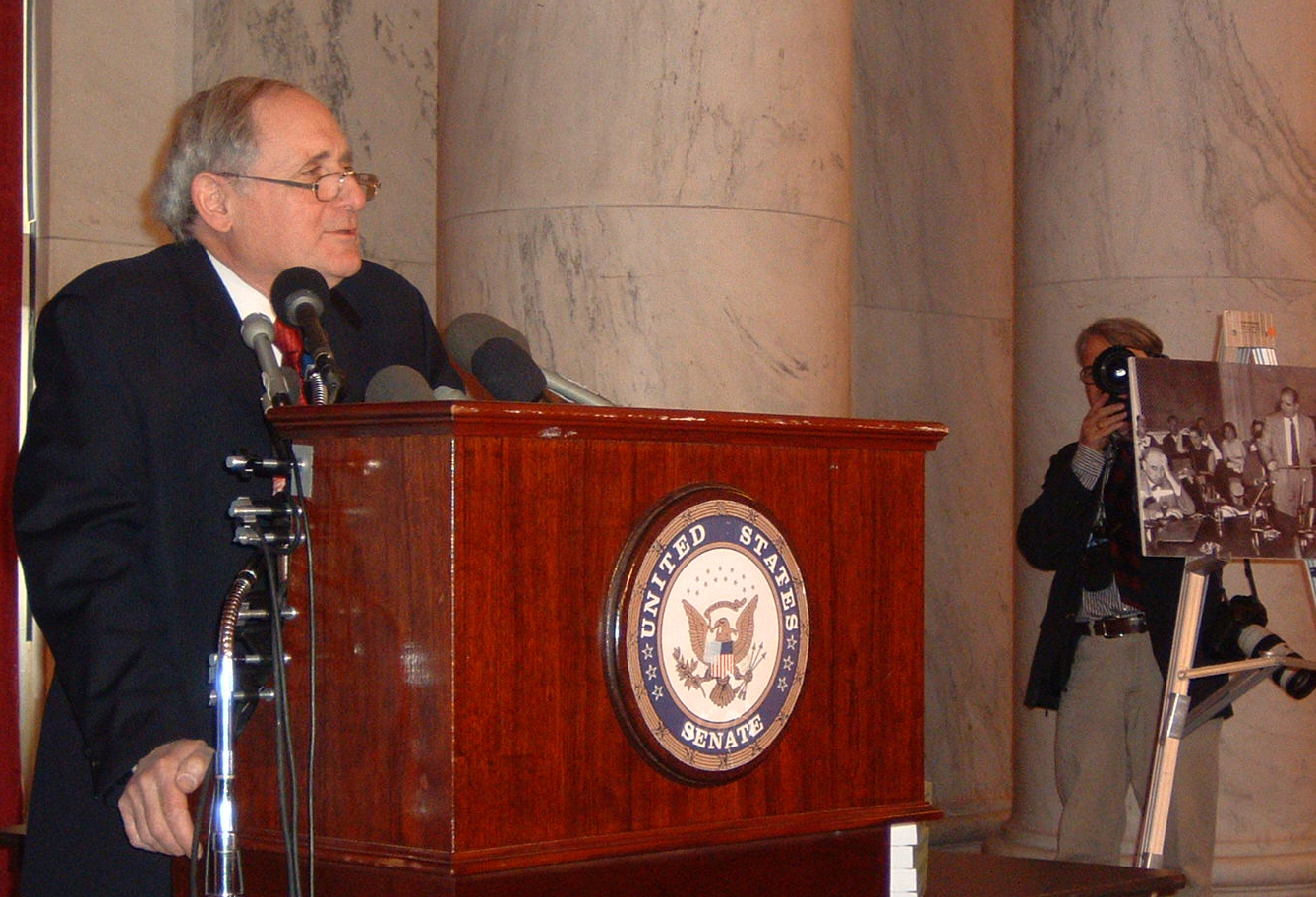 Senator Carl Levin announces at a press conference regarding his opposition to the War in Iraq and his willingness to vote "No" on the authorization to give President George W. Bush the right to invade Iraq. (From enwiki)